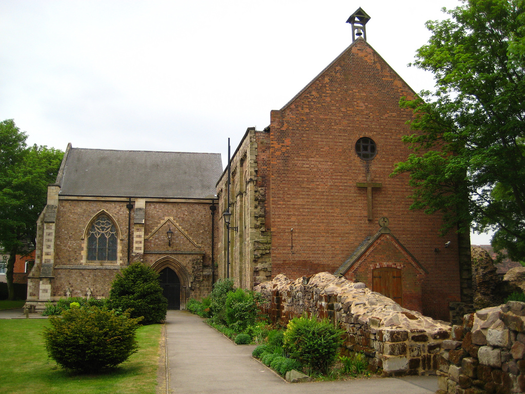 19th-century part of St Mary's Abbey Church in Nuneaton (Warwickshire, England).